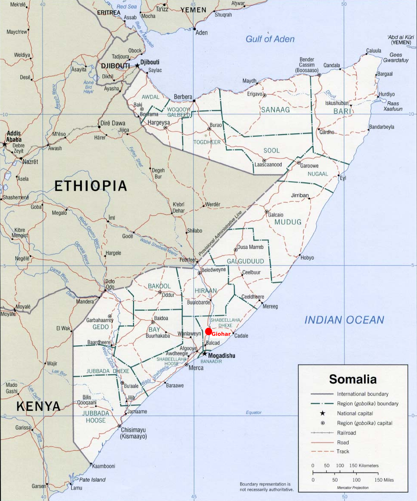 This is a political map of Somalia showing the location of Jowhar (or Giohar) north of Mogadishu with a red dot.